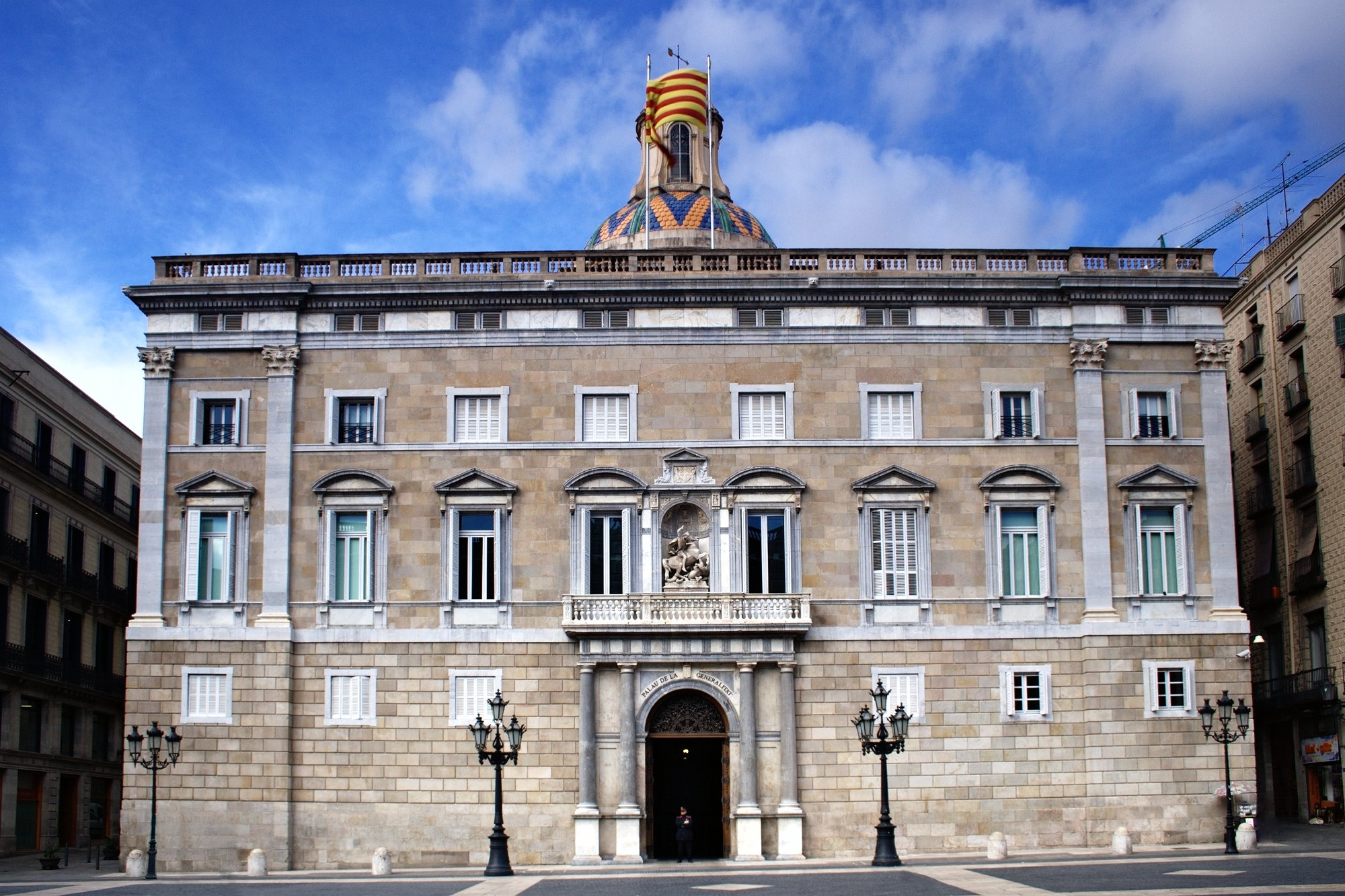 Palau de la Generalitat